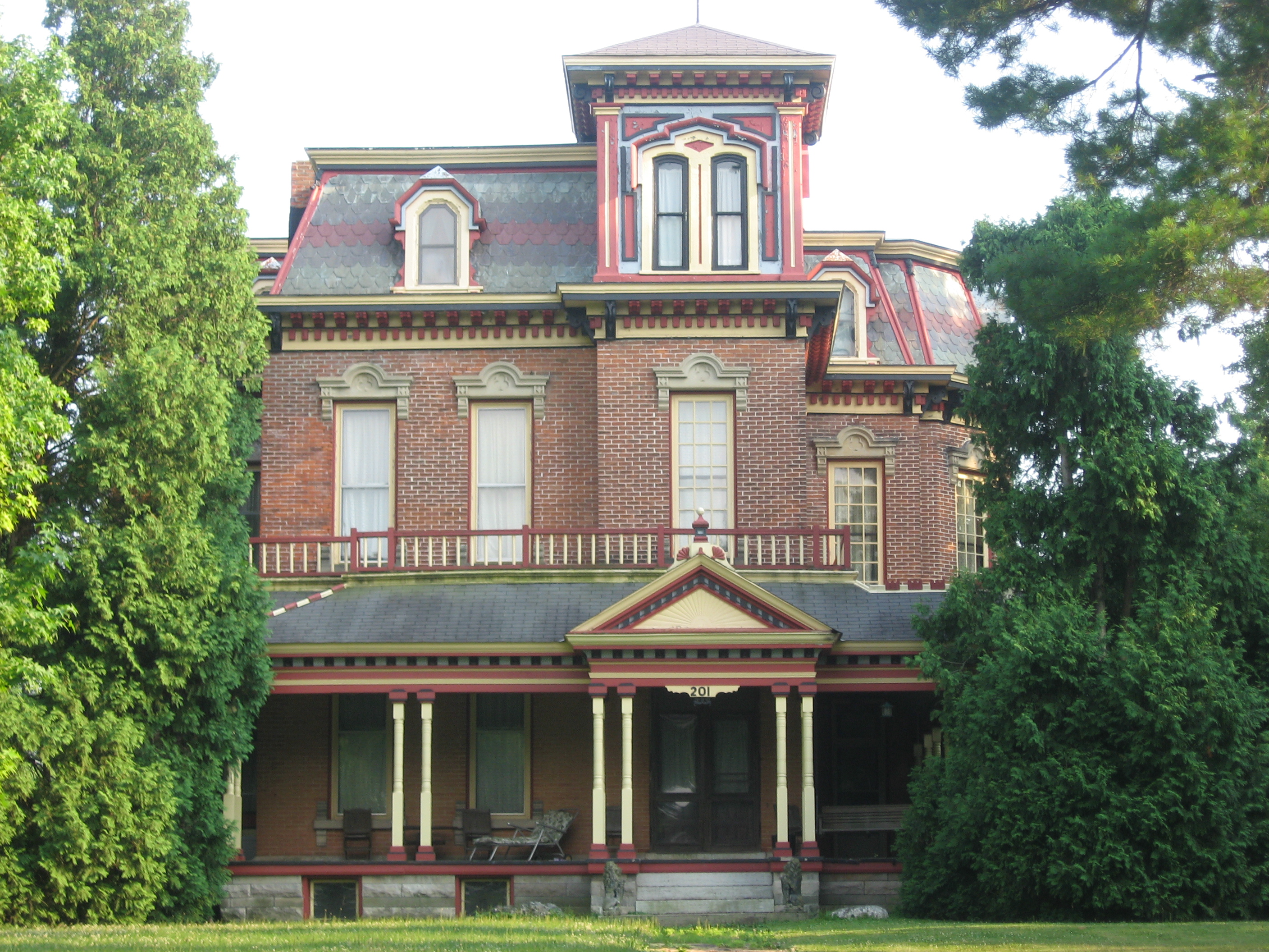 Front of the Gen. Asahel Stone Mansion, located at 201 W. Orange Street in Winchester, Indiana, United States. Built in 1872, it is listed on the National Register of Historic Places.